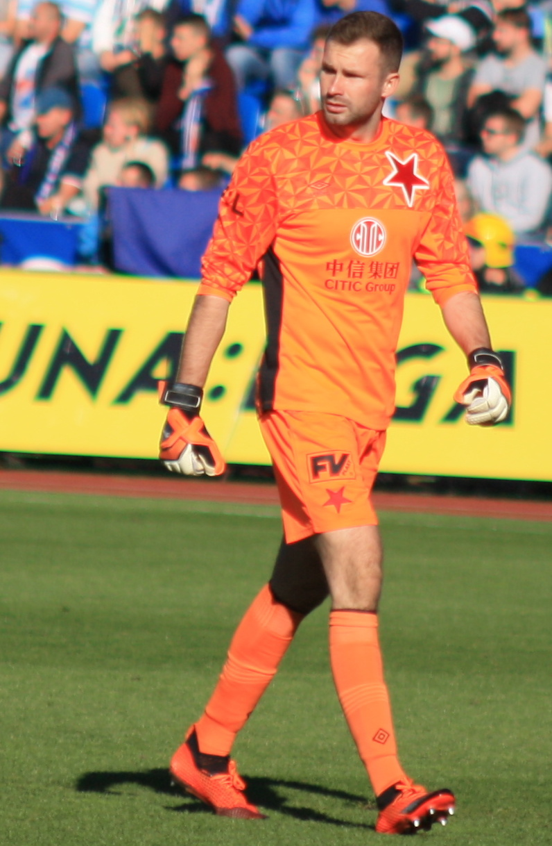 Ondřej Kolář At Czech First League (Fortuna Liga) match FC Baník Ostrava-SK Slavia Praha played on 30. 9. 2018